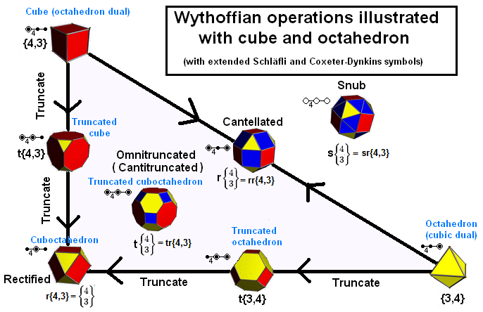 Example created to show truncation operations on regular polyhedra.